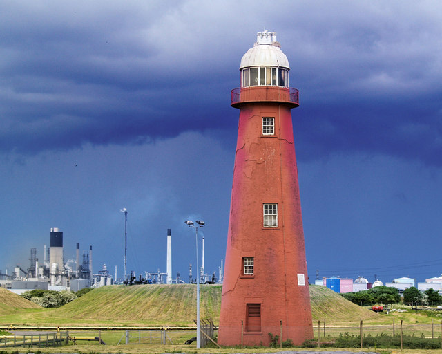 Killingholme high light. Built in 1876 and still going strong today June 2007.